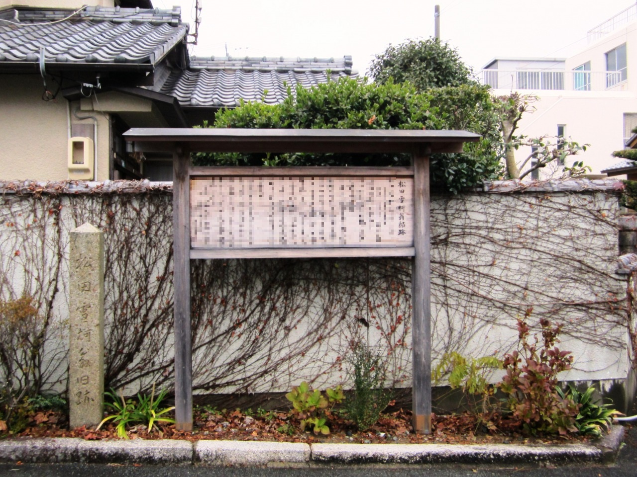 The Site of Matsuda Sekka's residence in Ise, Mie.